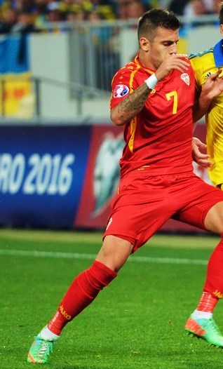 Aleksandar Trajkovski